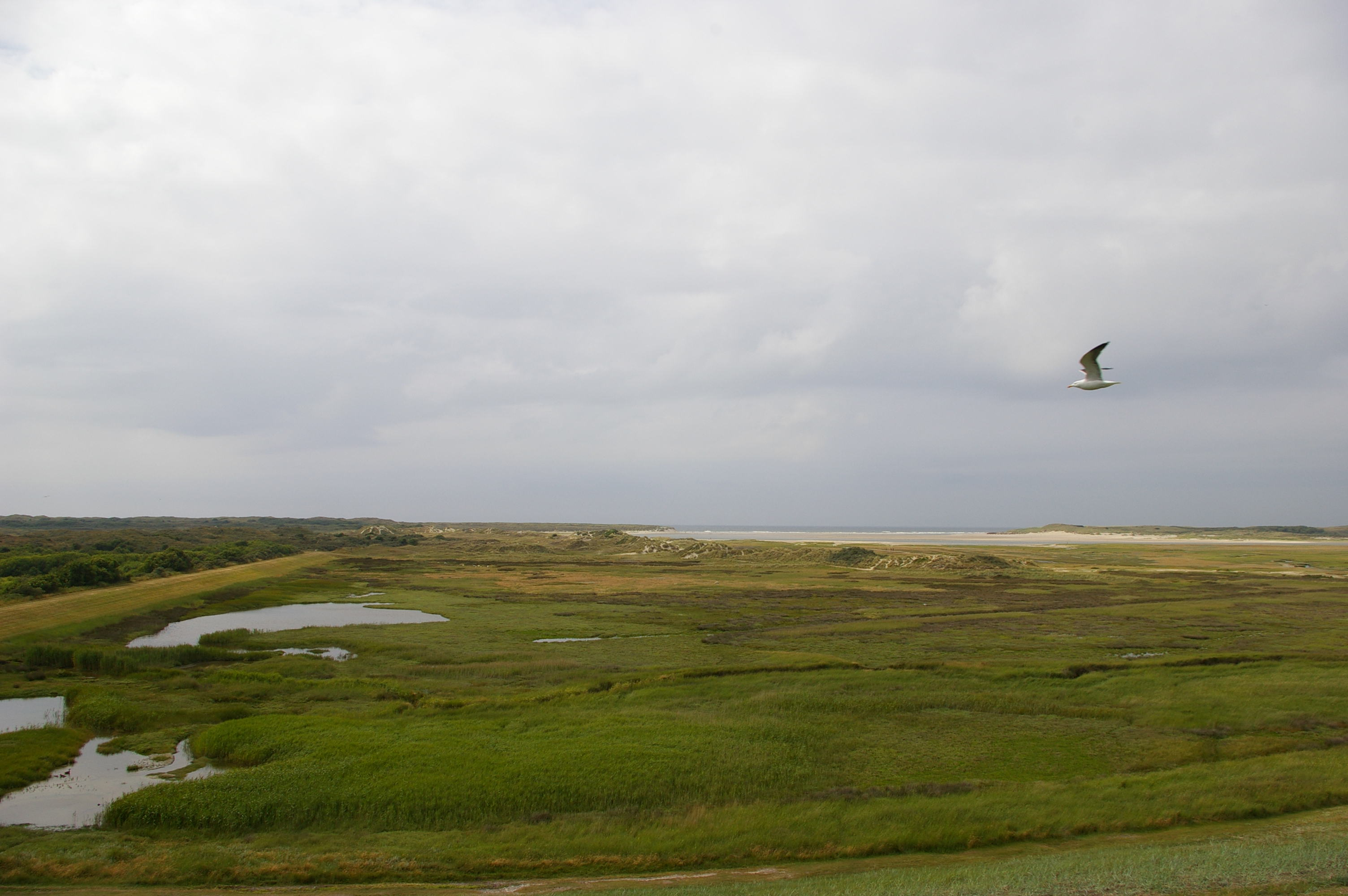 View of De Slufter, part of Nationaal Park Duinen van Texel, the Netherlands. Used on Nationaal Park Duinen van Texel and Texelpad.